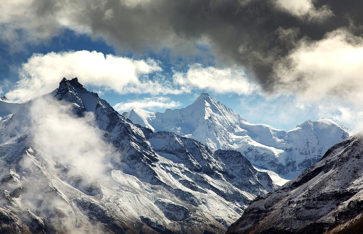 Besso, Obergabelhorn, Zinal valley